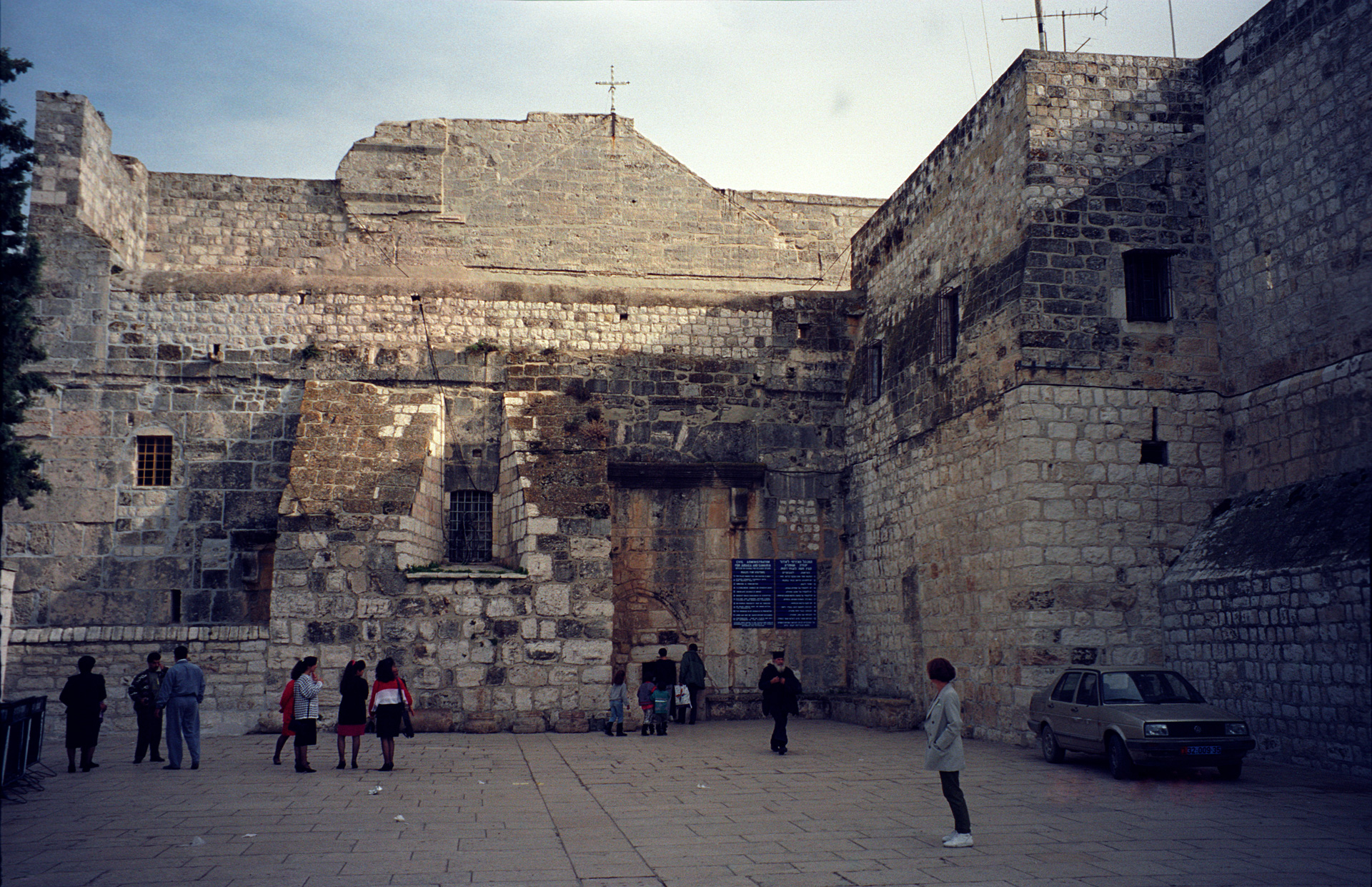 Church of the Nativity, Bethlehem